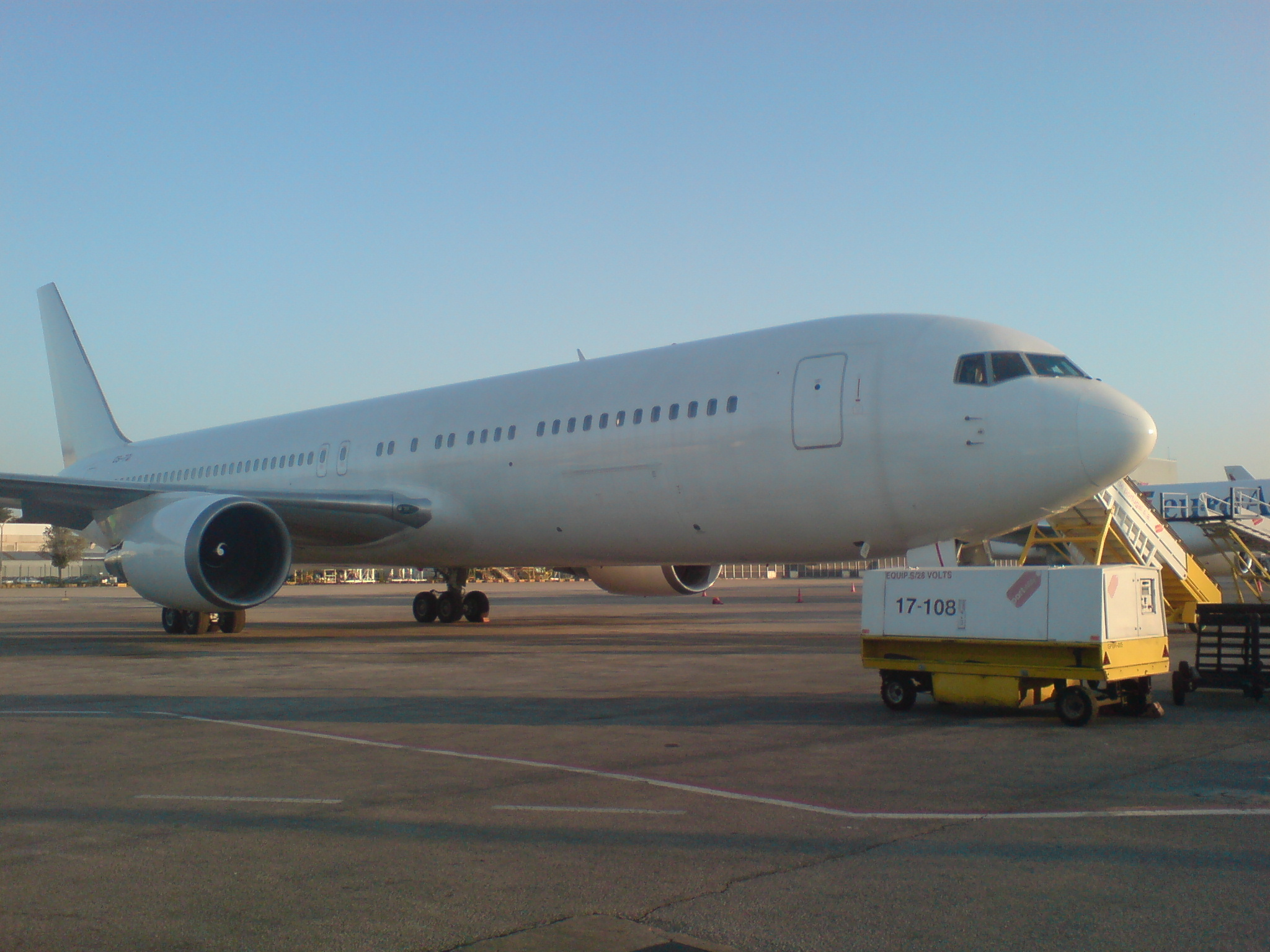 Luzair CS-TQI Boeing 767-300ER